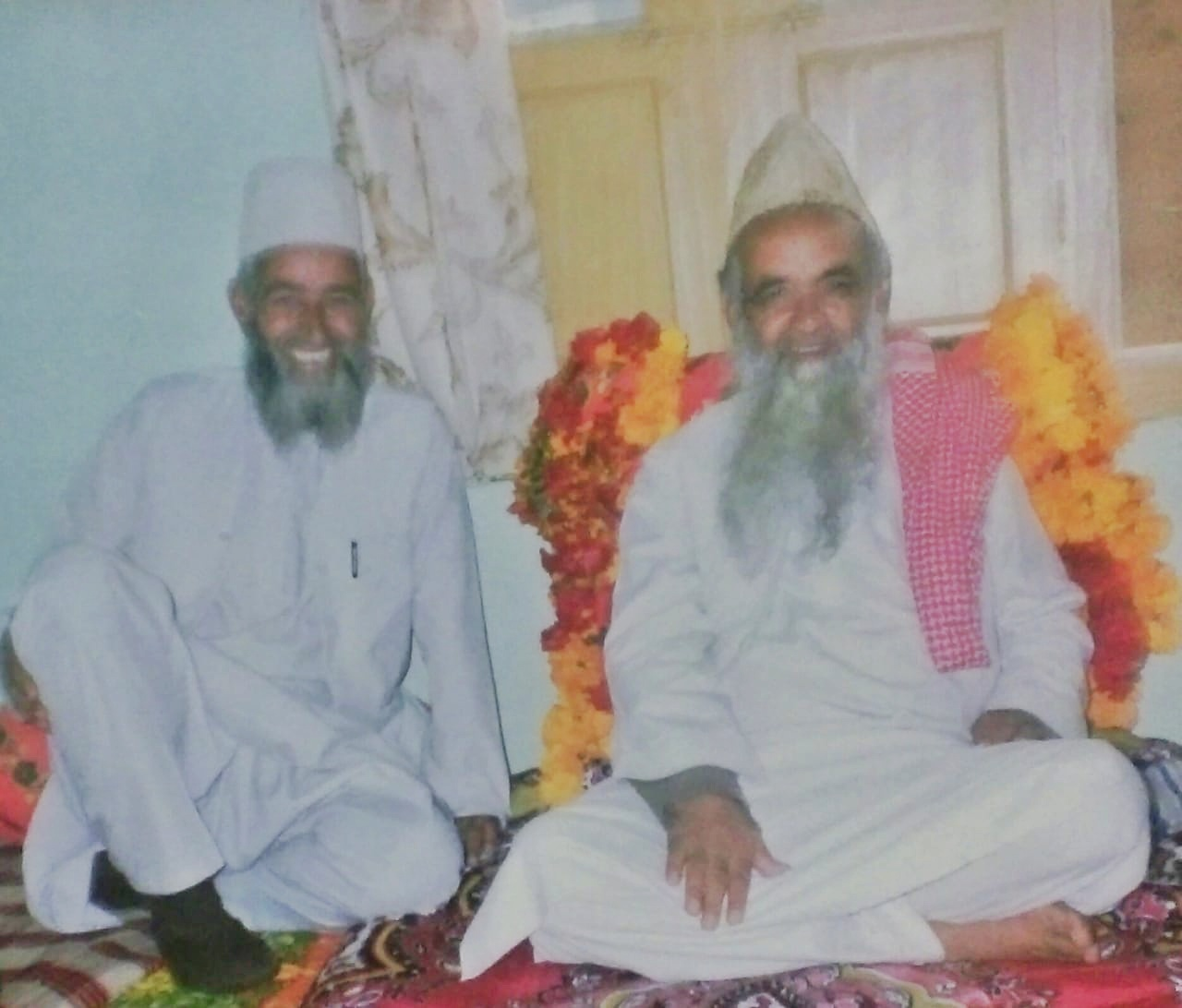 Ghulam Qadir Ganipuri with his close aide Alhaj Dost Mohd Wani about 18 years ago